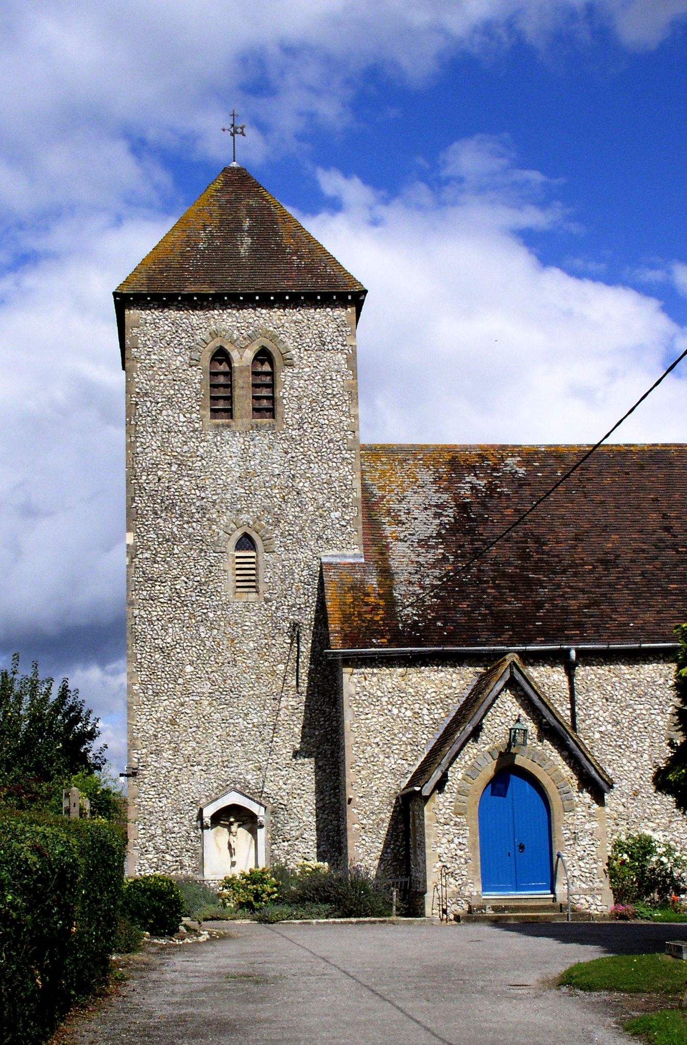 West tower and south porch of St Michael's and All Angels parish church, Partridge Green, West Sussex, seen from the southeast